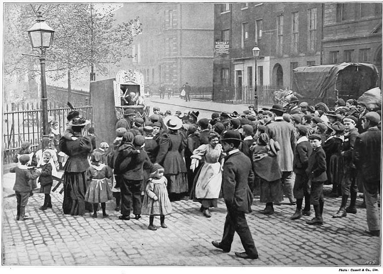 "PUNCH AND JUDY": OR THE LEGITIMATE DRAMA It it to be regretted that the increase of larger theatres has diminished the sphere of usefulness of that ancient form of dramatic representation which we here see depicted The famous tragi-comedy which deals with the life and fortune of Mr. Punch, his family, and dependants, has undoubtedly come down to us from the twelfth century at least, and in its original Italian form is believed by the learned to have been a " Mystery Play" of deep import. It is. however, not probable that a modern London audience sees any deep significance in the domestic quarrels of the hero and his spouse; and the amusement which is invariably the result of the Interposition of the faithful Toby is quite independent of historical research That " Punch and Judy " it still capable of amusing an audience of both old and youog is plain from our picture, which represents a special "matinee"given for the benefit of our artist by Mr. J. Bland, of New Oxford Street, the lessee of the theatre, and the impresario of the troupe.